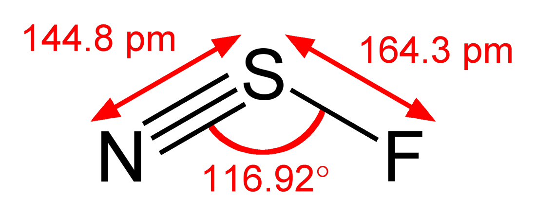 Structural formula, with dimensions, of the thiazyl fluoride molecule, NSF